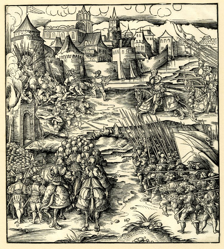 Attack upon a city; troops marching through the city gate of a town in the background facing the onslaught of a group of knights on horseback from the right, different troops of cavalry and foot troops in the foreground, to the left a burning building. Early proof. c.1514-6 Woodcut